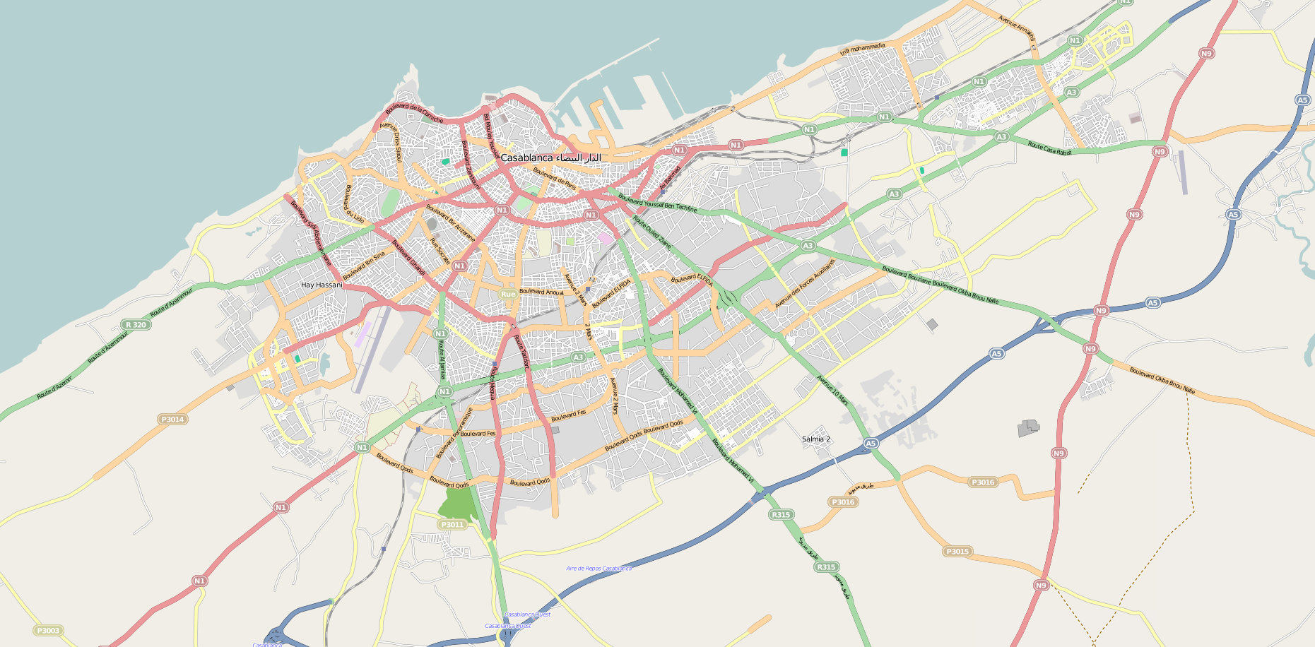 Map of Greater Casablanca (rough), Morocco for pin Geographic limits of the map: N: 33.628° S: 33.497° W: -7.752° E: -7.432°